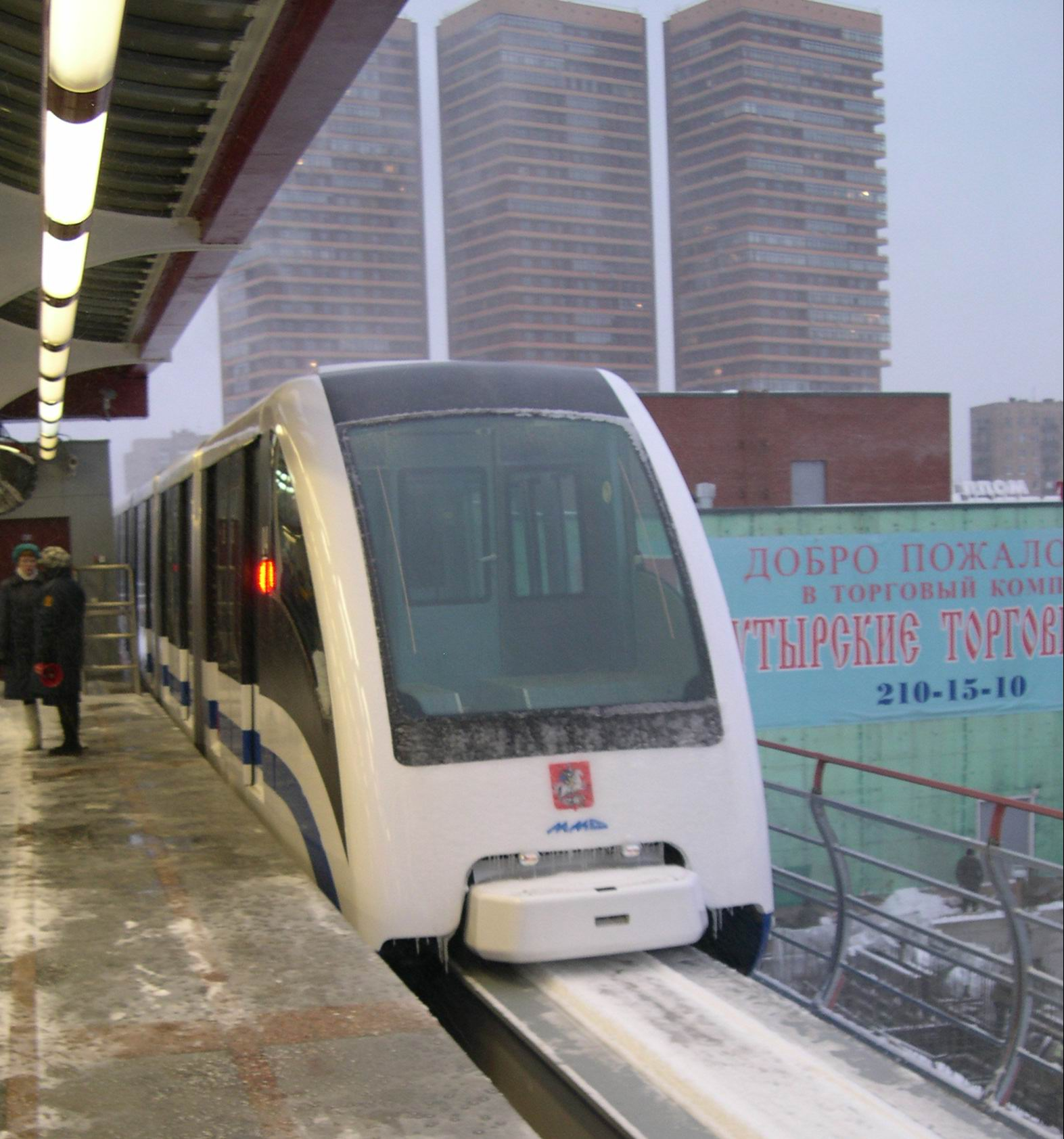 Moscow monorail transport at st. Timiryazevskaya.